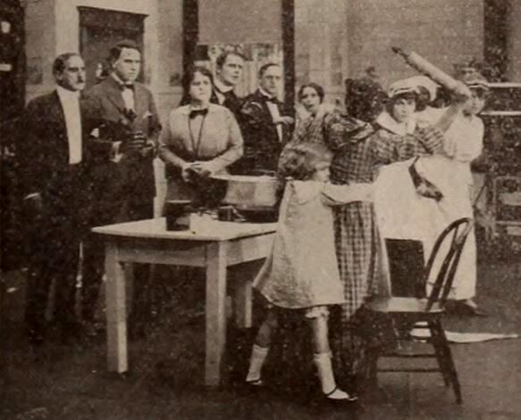 Still from the American comedy film Pants (1917) with Mary McAllister, on page 21 of the September 1, 1917 Exhibitors Herald.